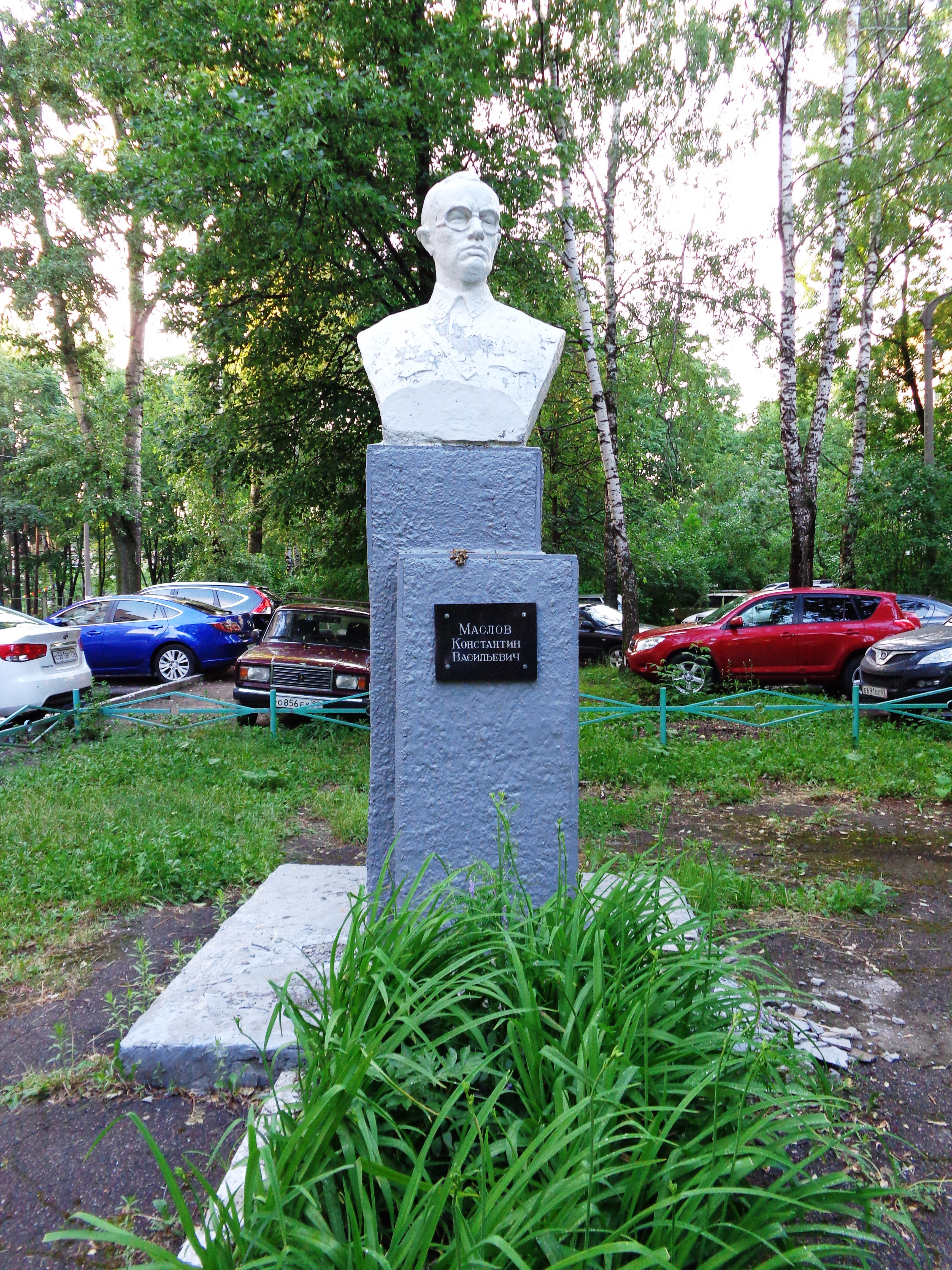 Konstantin Vasilievich Maslov (05.1892-04.06.1938) was a Soviet military commander, military pilot, participant in the First world war and Civil war, commander of the air force of the Siberian and TRANS-Baikal military districts, comdiv (1935).